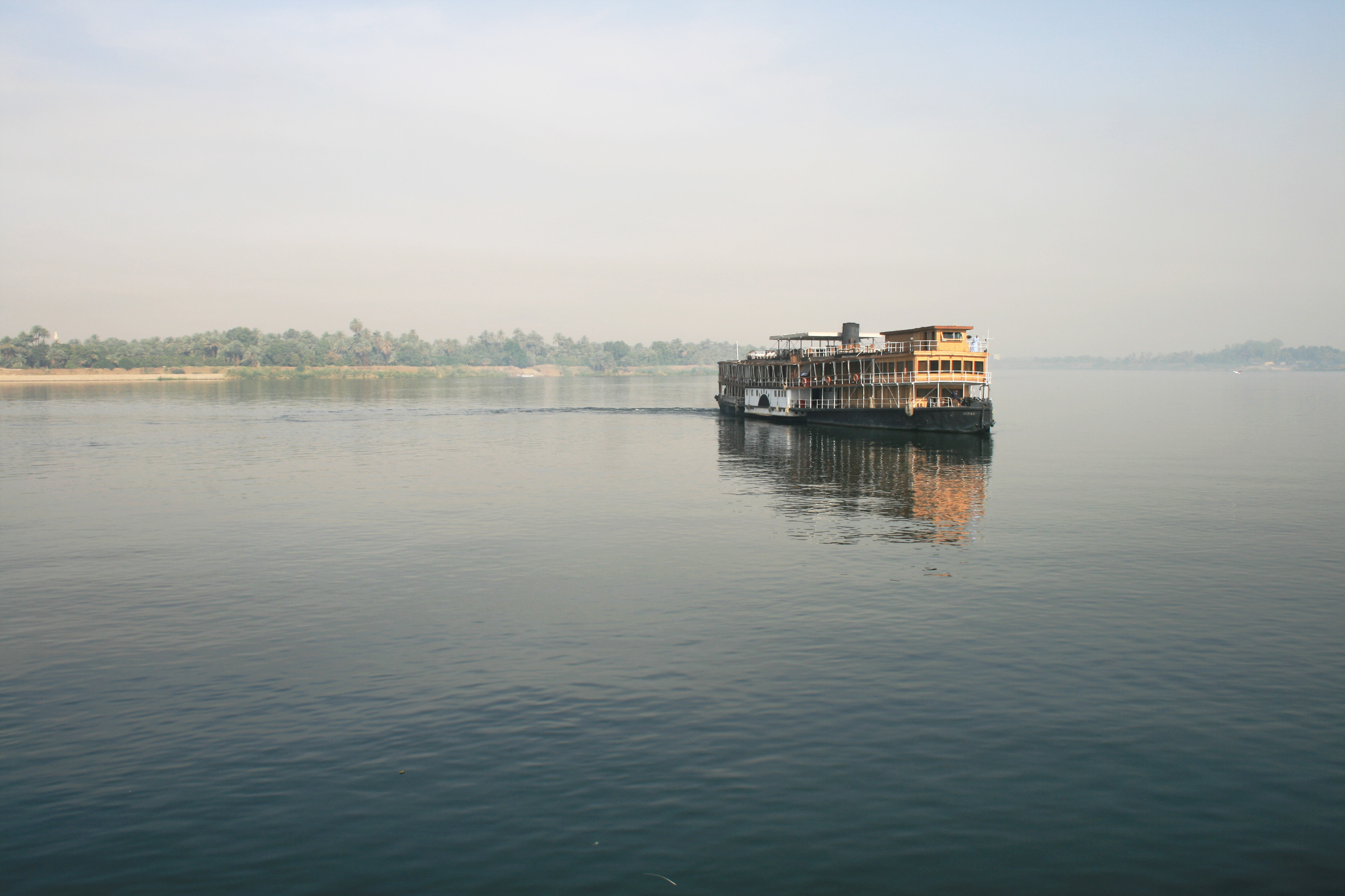 Old ship on Nile river in Aswan, Egypt